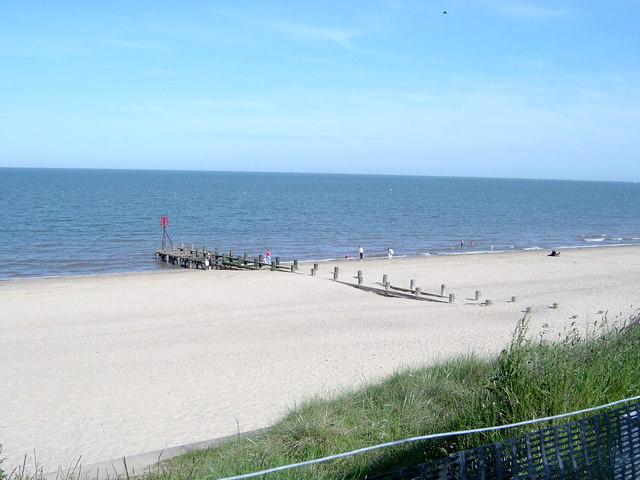 Hopton-on-Sea Original description: Hopton Beach View of Hopton beach from the holiday park.